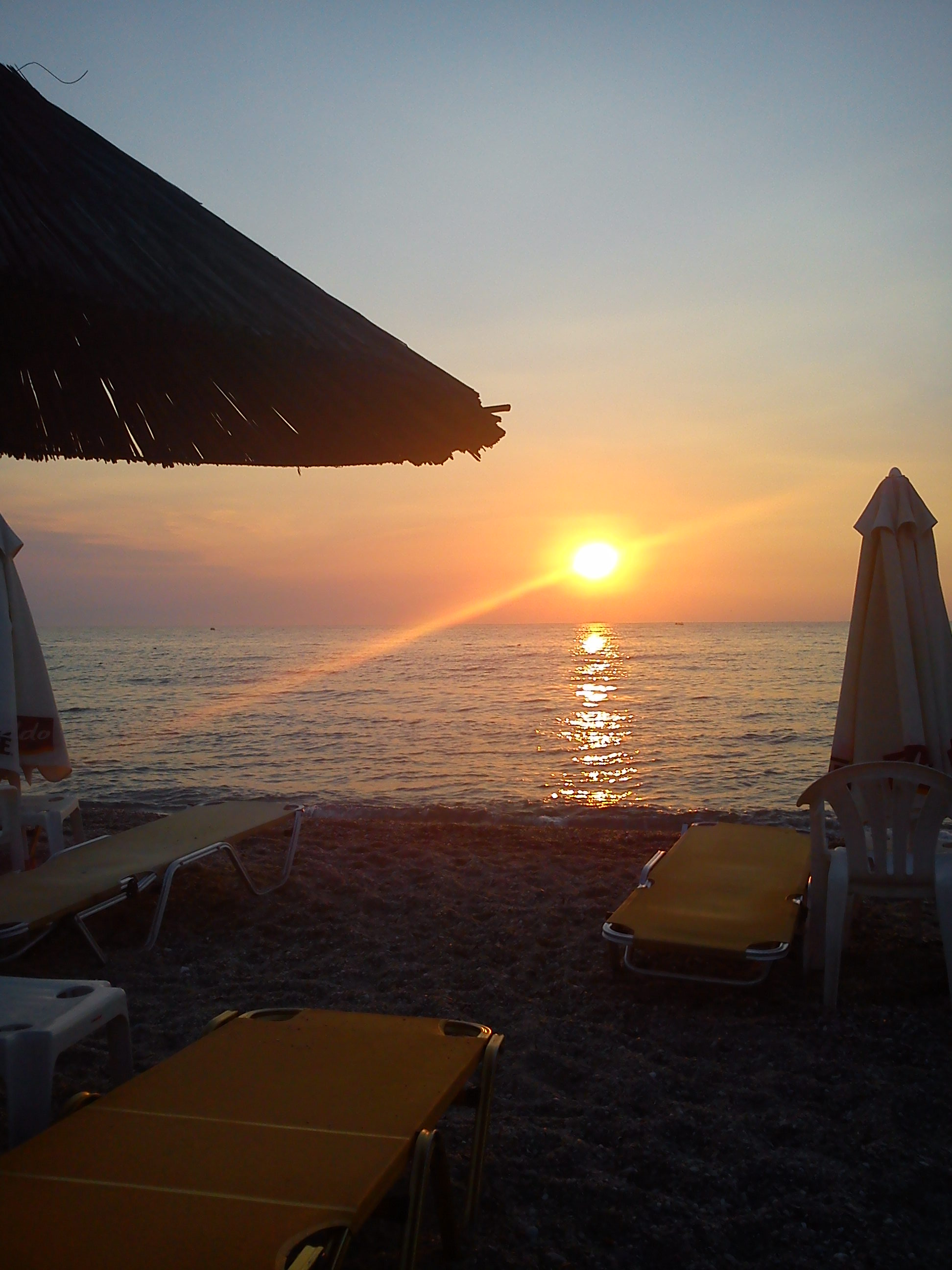 Sunset at Possidi beach